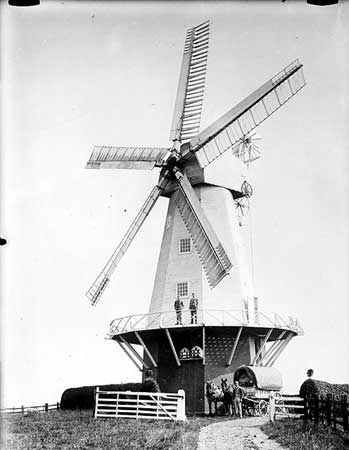 Photograph of Ringle Crouch Green Mill, Sandhurst, Kent